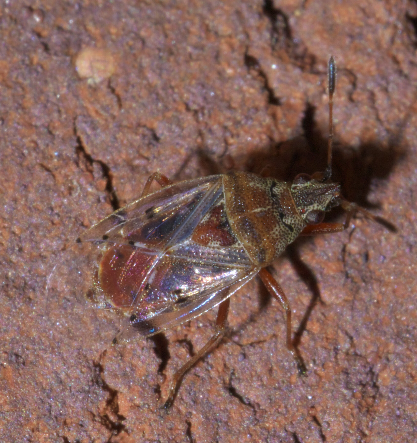 Kleidocerys resedae, Birch Catkin Bug, Size: 4.8 mm, ID Confidence: 88